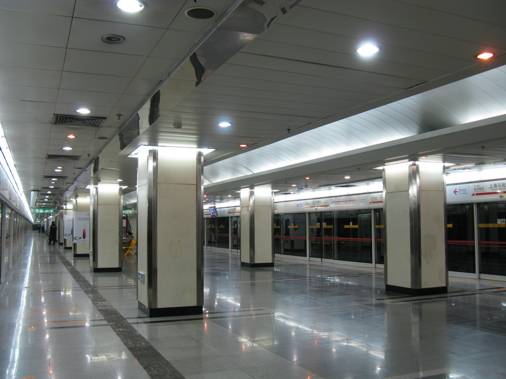 Line 1 Platform of Shanghai Circus World Station